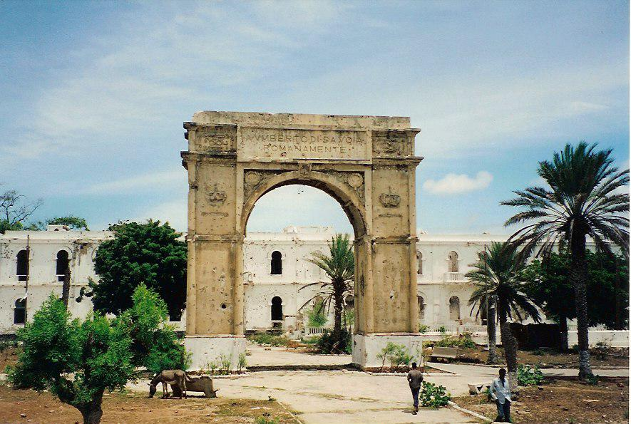 An Italian-era arch in Mogadishu.